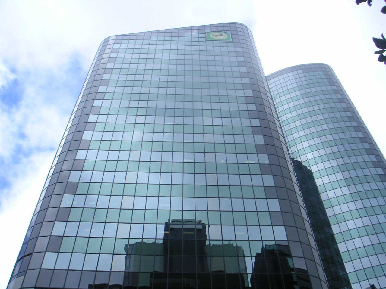 Skyscrapers in Auckland, New Zealand